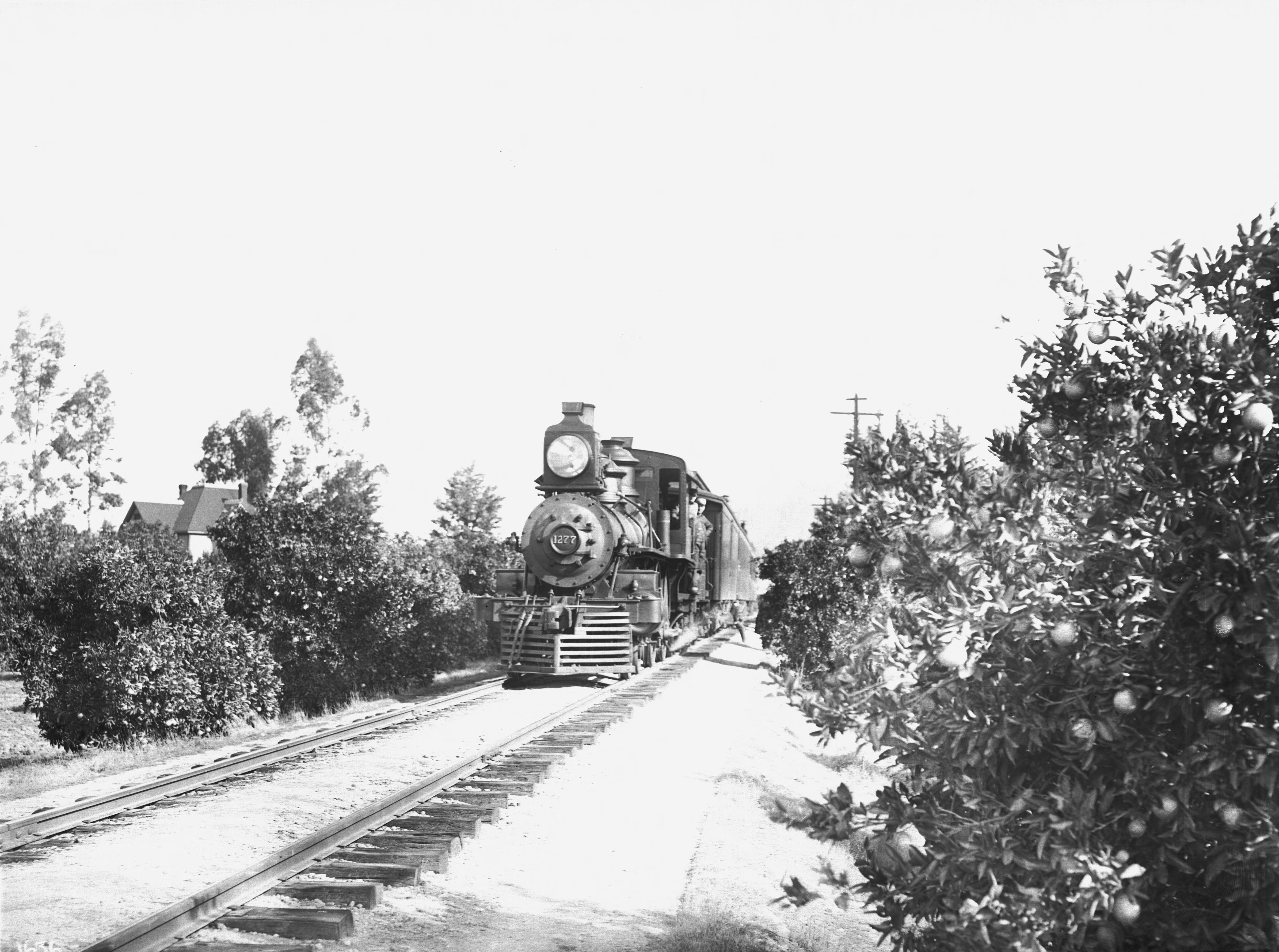 Train in citrus groves in Riverside, California Photograph of a Southern Pacific Railroad train running through the tracks in an orange grove in Riverside, California. The engine number is "1277". Part of a house is visible at left behind the trees. Call number: CHS-1636 Filename: CHS-1636 Coverage date: circa 1910 Part of collection: California Historical Society Collection, 1860-1960 Format: glass plate negatives Type: images Geographic subject (city or populated place): Riverside Repository name: USC Libraries Special Collections Accession number: 1636 Microfiche number: 1-105-25 Archival file: chs_Volume67/CHS-1636.tiff Part of subcollection: Title Insurance and Trust, and C.C. Pierce Photography Collection, 1860-1960 Repository address: Doheny Memorial Library, Los Angeles, CA 90089-0189 Geographic subject (country): USA Format (aacr2): 1 photograph : photoprint, b&w ; 8 x 10 in.; 1 photograph : glass photonegative, b&w ; 17 x 22 cm. Rights: Digitally reproduced by the USC Digital Library; From the California Historical Society Collection at the University of Southern California Subject (adlf): railroad features Project: USC Repository Contributing entity: California Historical Society Date created: circa 1910 Publisher (of the digital version): University of Southern California. Libraries Format (aat): photographs Geographic subject (state): California Subject (file heading): Agriculture -- Crops -- Citrus Legacy record ID: chs-m9137; USC-1-1-1-9275 Access conditions: Send requests to address or e-mail given. Phone (213) 821-2366; fax (213) 740-2343. Geographic subject (county): Riverside Subject (lcsh): Citrus fruits; Orchards; Railroads